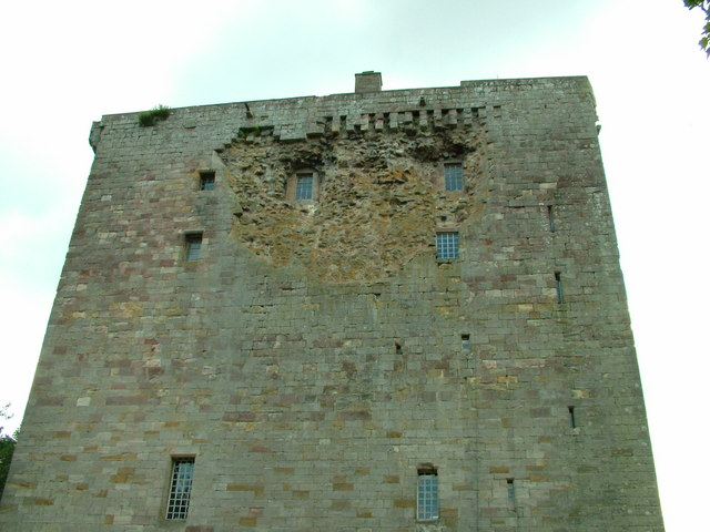 Borthwick Castle Cannon damage from an attack by Cromwell's army. Borthwick Castle is a great surviving U plan medieval castle. It was built by Sir William Borthwick in 1430 on the site of an earlier tower.